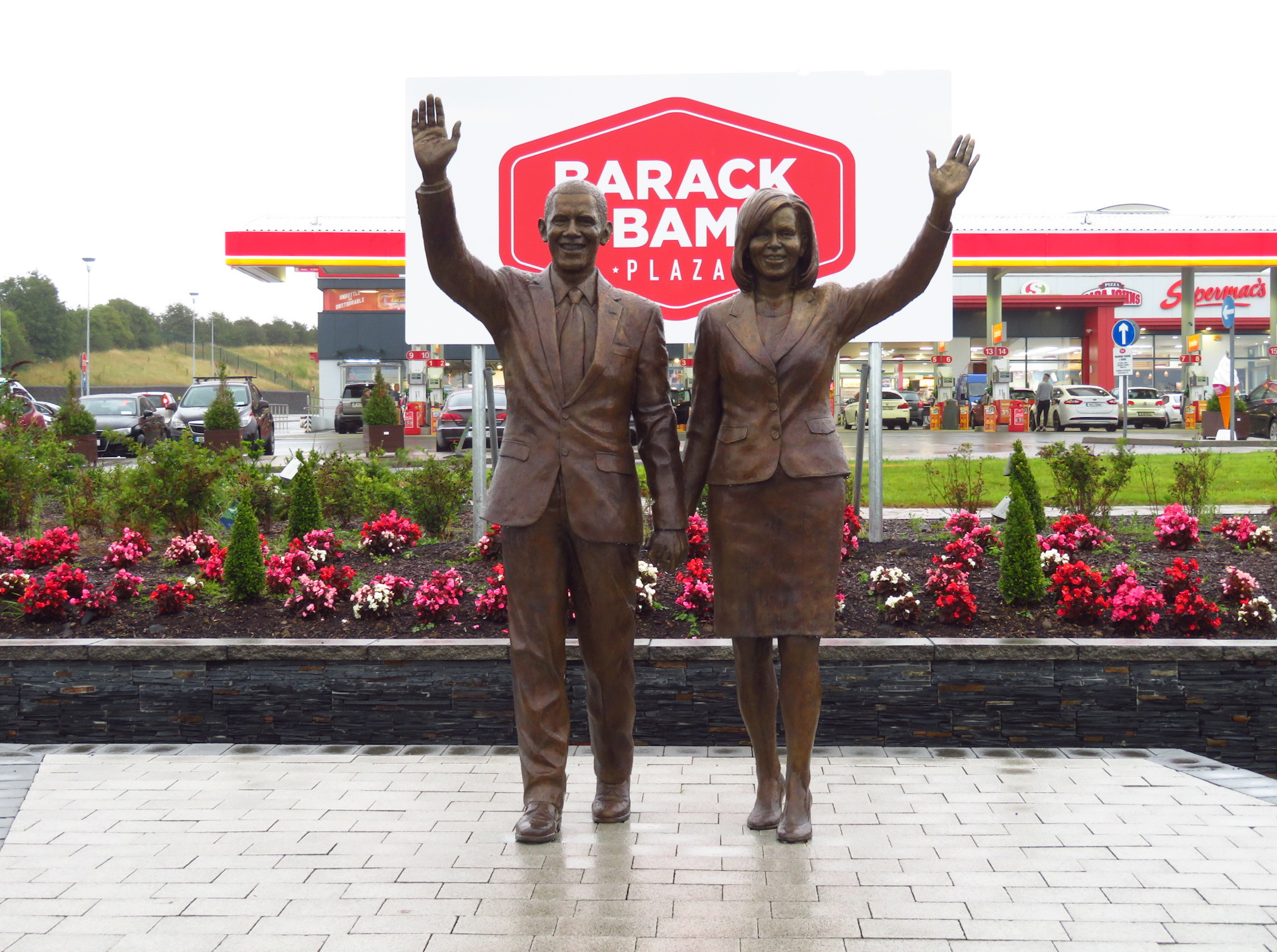 Bronze sculptures by Mark Rhodes of Barack and Michelle Obama at the Barack Obama Plaza motorway service area near Moneygall in Ireland, named after former US president Barack Obama.